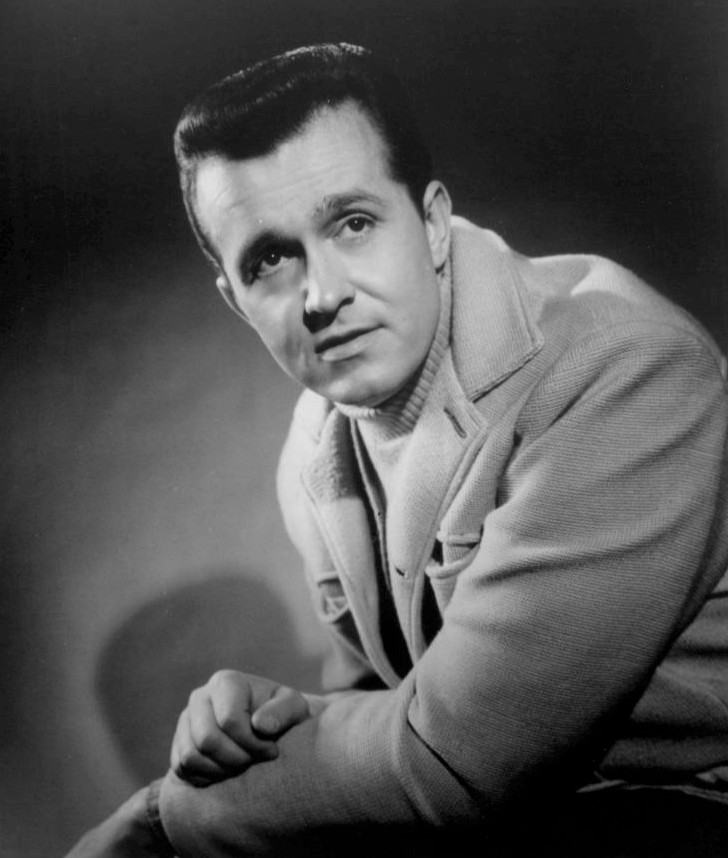 Photo of country vocalist Bill Anderson.